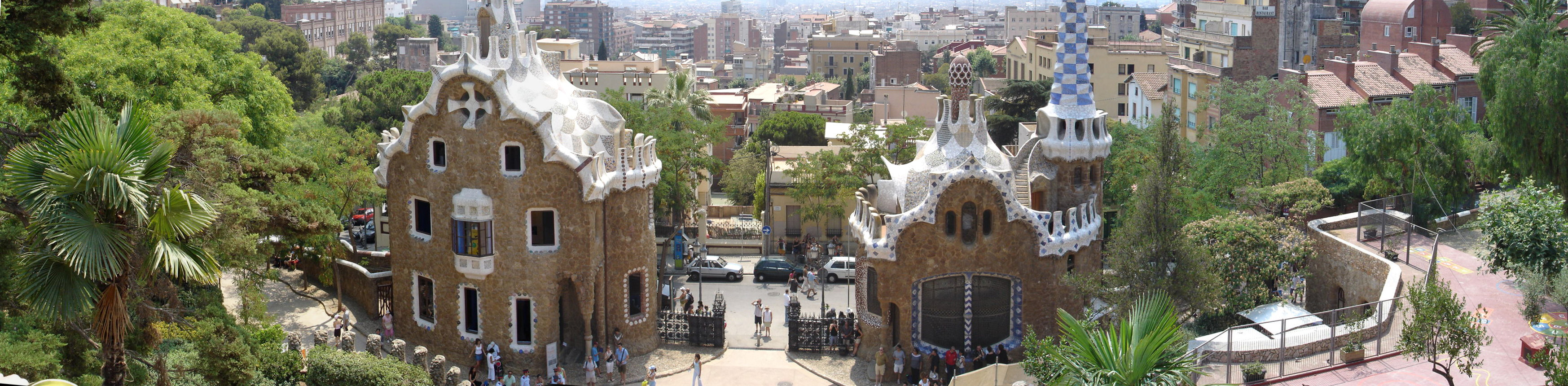 Entrance of the Park Guëll in Barcelona